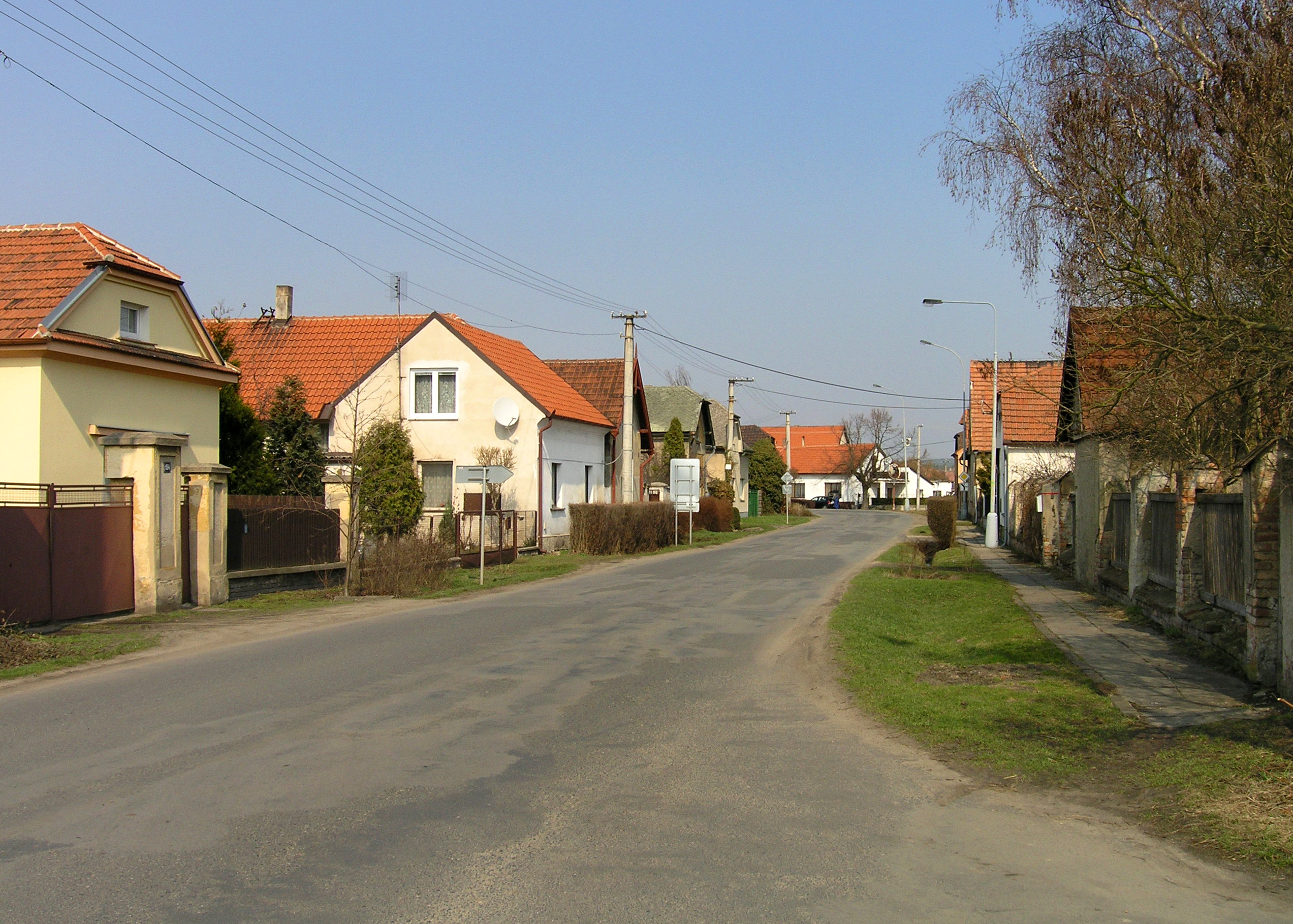 Main street in Dřísy village, Czech Republic